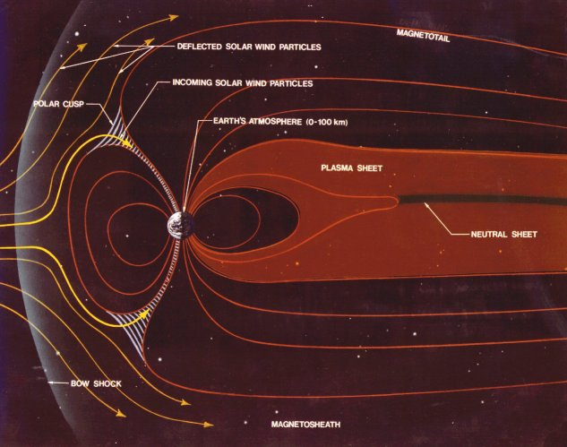 Note: See the version numbered to create or enhance one translation.